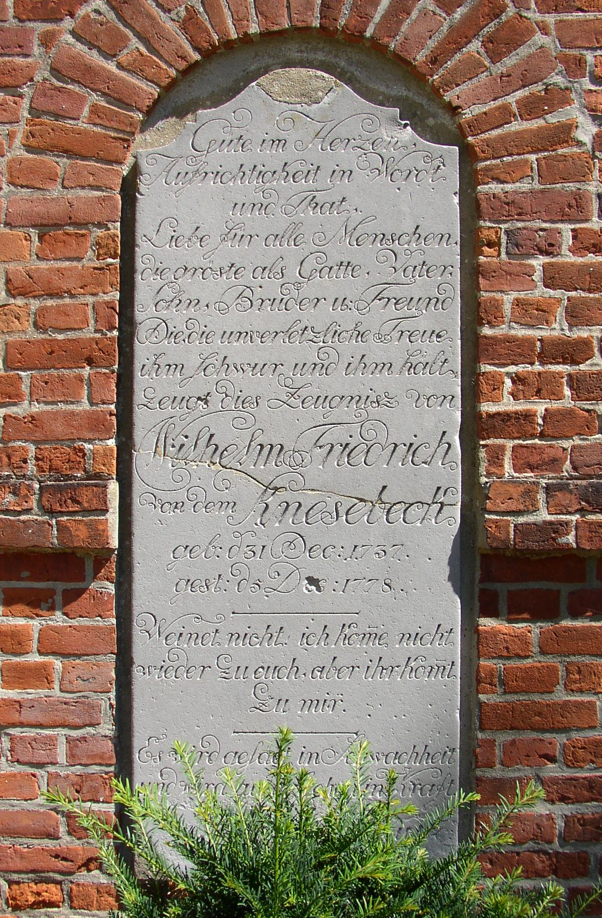 Memorial plaque for Friedrich Wilhelm von dem Knesebeck at the church in Gresse in Mecklenburg-Western Pomerania, Germany